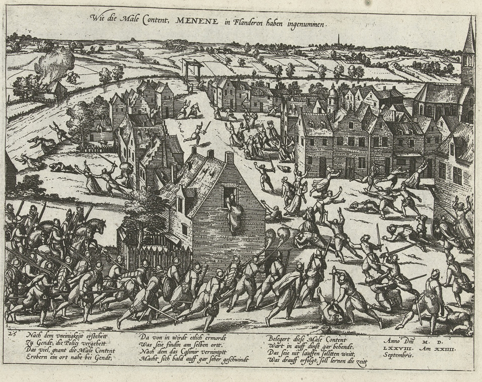 Conquest of Menen by Malcontenten, 24 sep. 1578